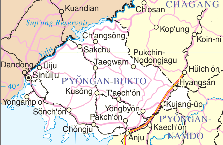 Map of Pyongan-Bukto, cropped from Un-north-korea.png